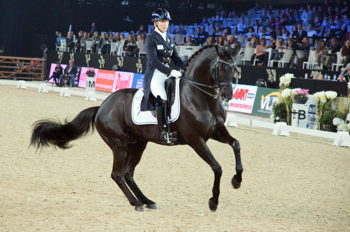 Terhi Stegars with Axis TSF at the Grand Prix Freestyle, CDI 5* Jumping Mechelen 2015